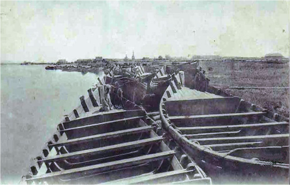 В Низовьях Волги появляются Сапожниковские рыбные промыслы, получившие впоследствии громкую известность